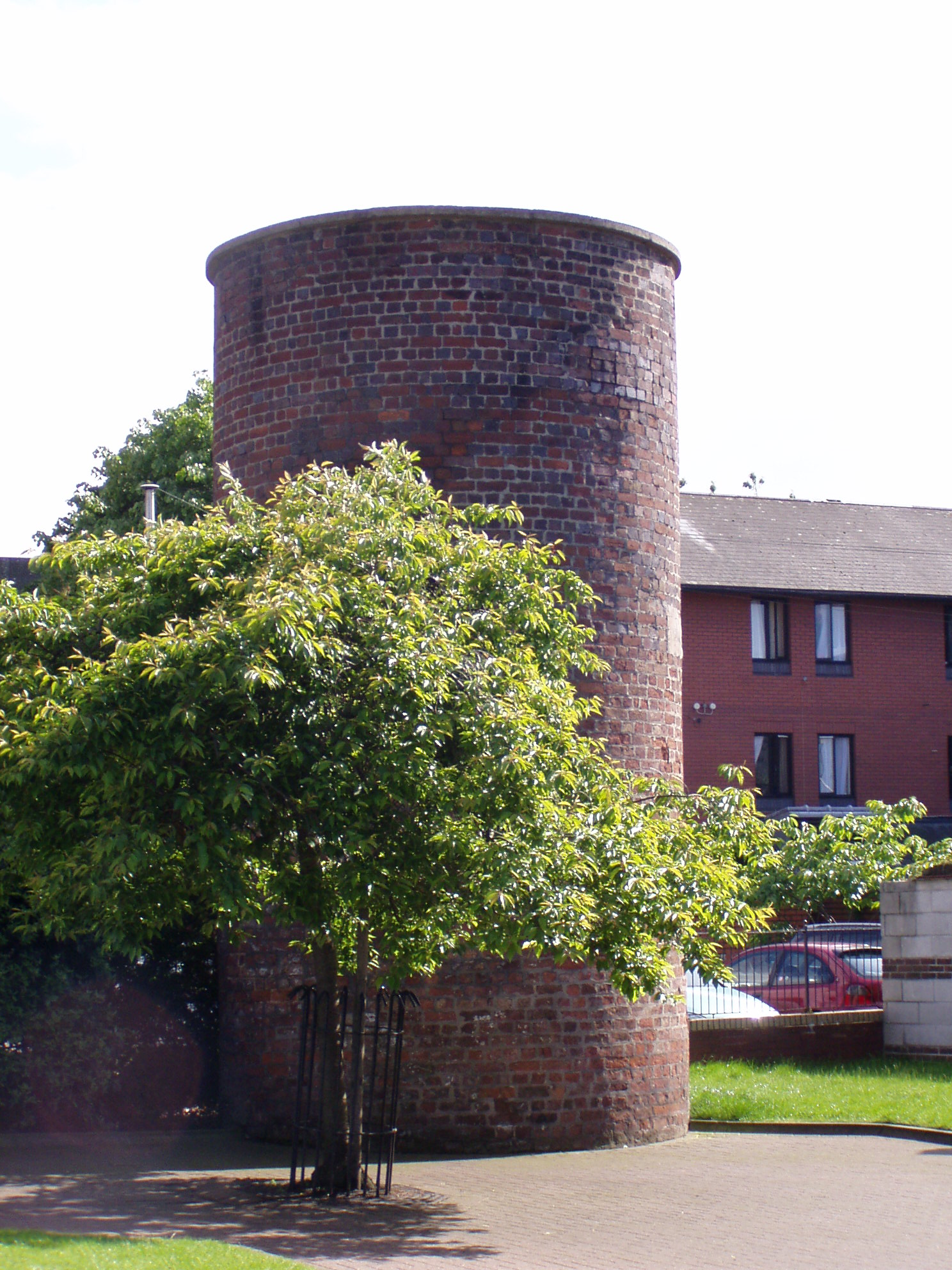 Victoria Tunnel Vent in National Express, Fraser Street, Liverpool